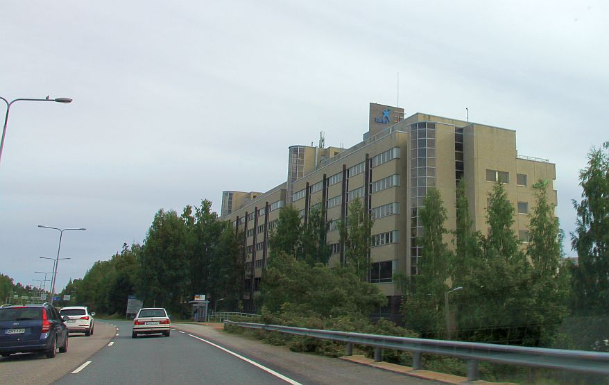 Tamron pääkonttoria Vihdintien länsipuolella. Tamron pääkonttorin osoite on Rajatorpantie 41B, 01641 Vantaa. Tamro on nykyään osa Phoenix Groupia. Huom: Muista säilyttää viittaus kuvaajaan, mikäli käytät kuvaa.